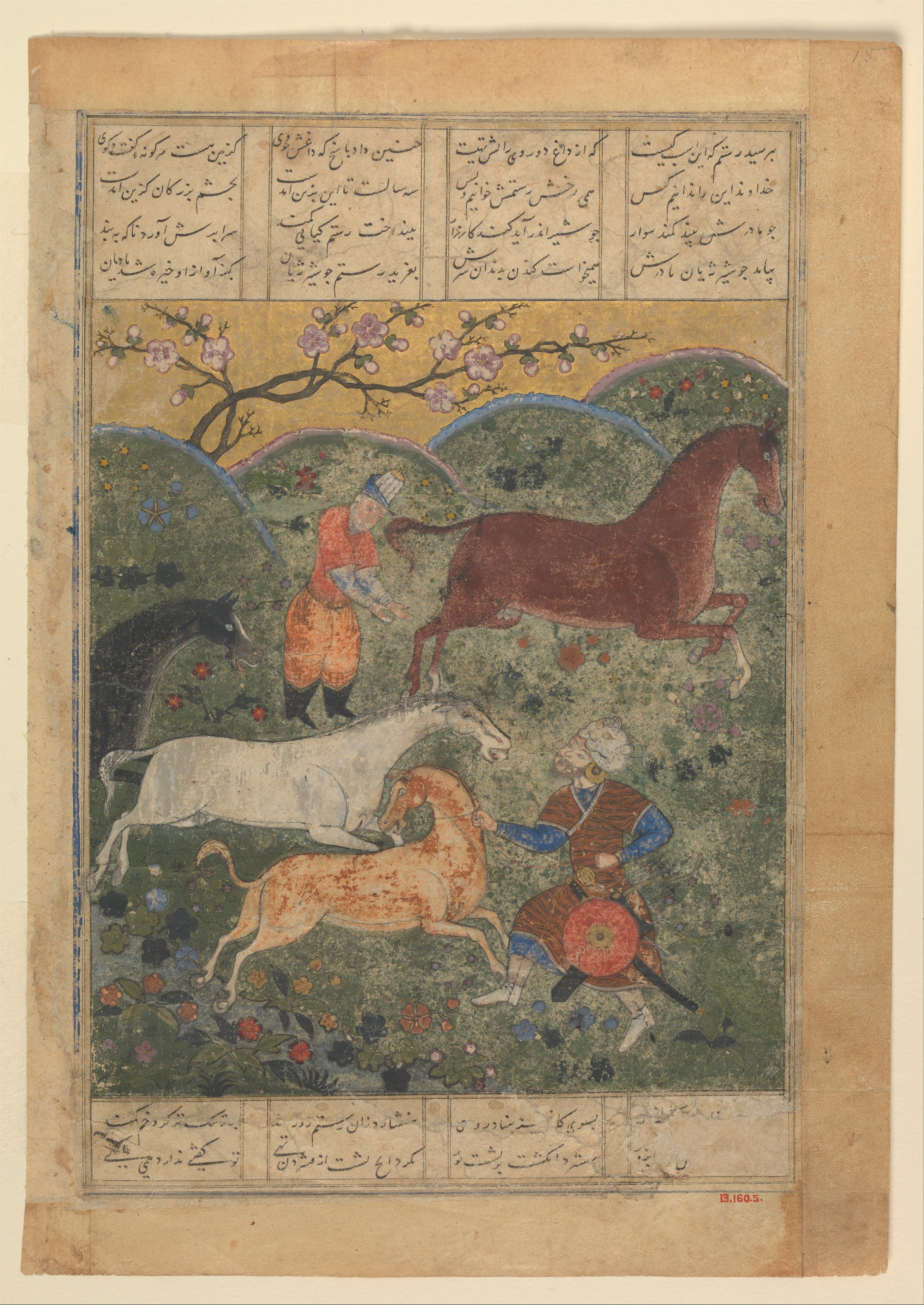 Folio from an illustrated manuscript; Codices